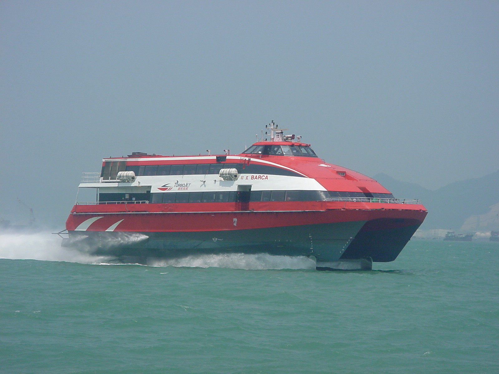 TurboJET's Barca Foilcat catamaran hydrofoil